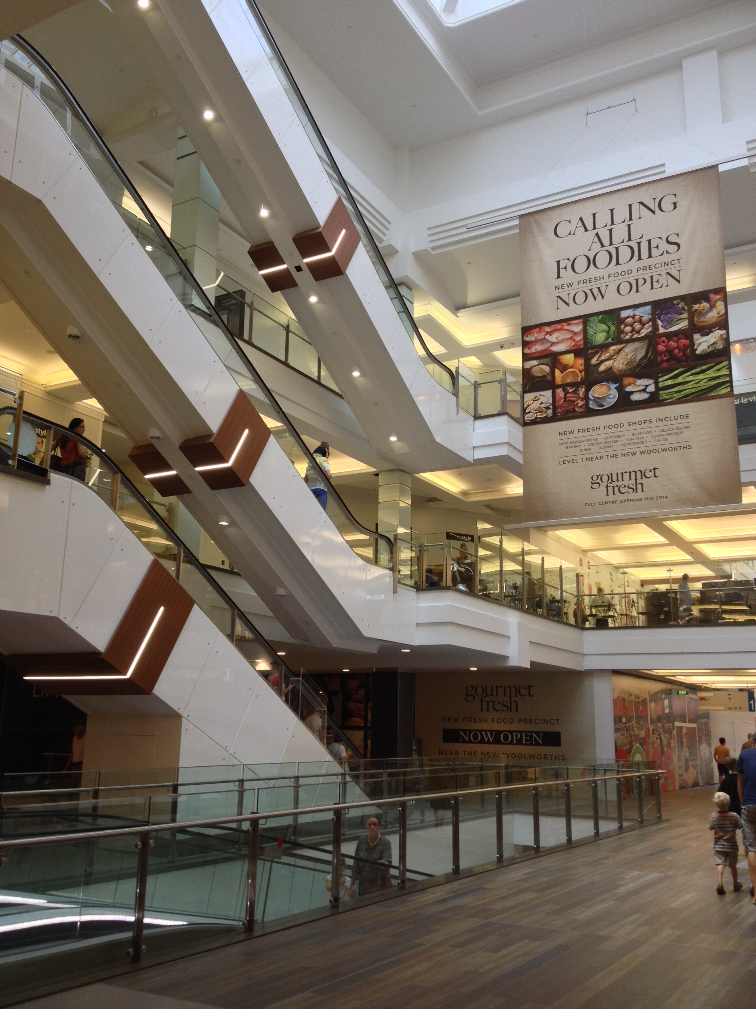 Indooroopilly Shopping Centre 02.2014